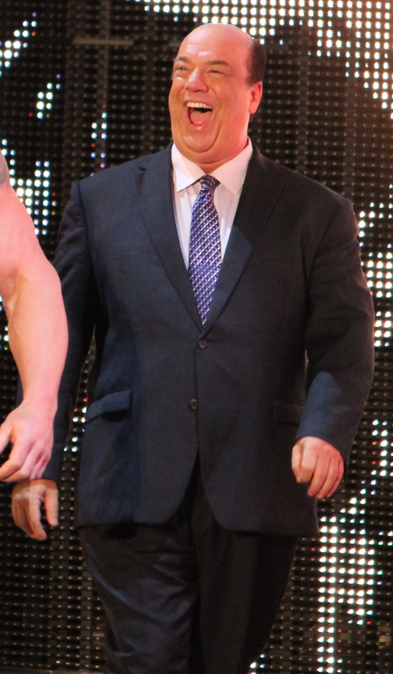 Paul Heyman at the post-WrestleMania Raw on 7 April 2014 in New Orleans, Louisiana.